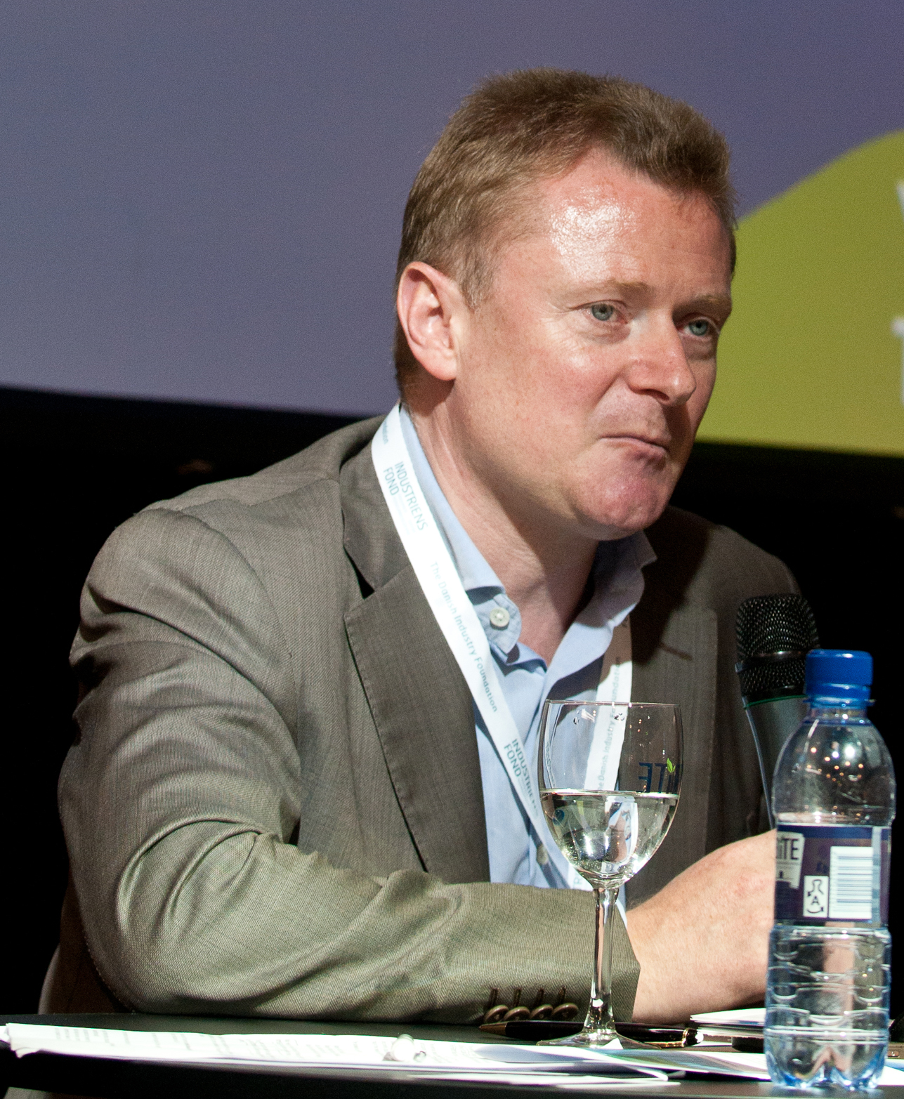 BDF_Summit_2010.06.01